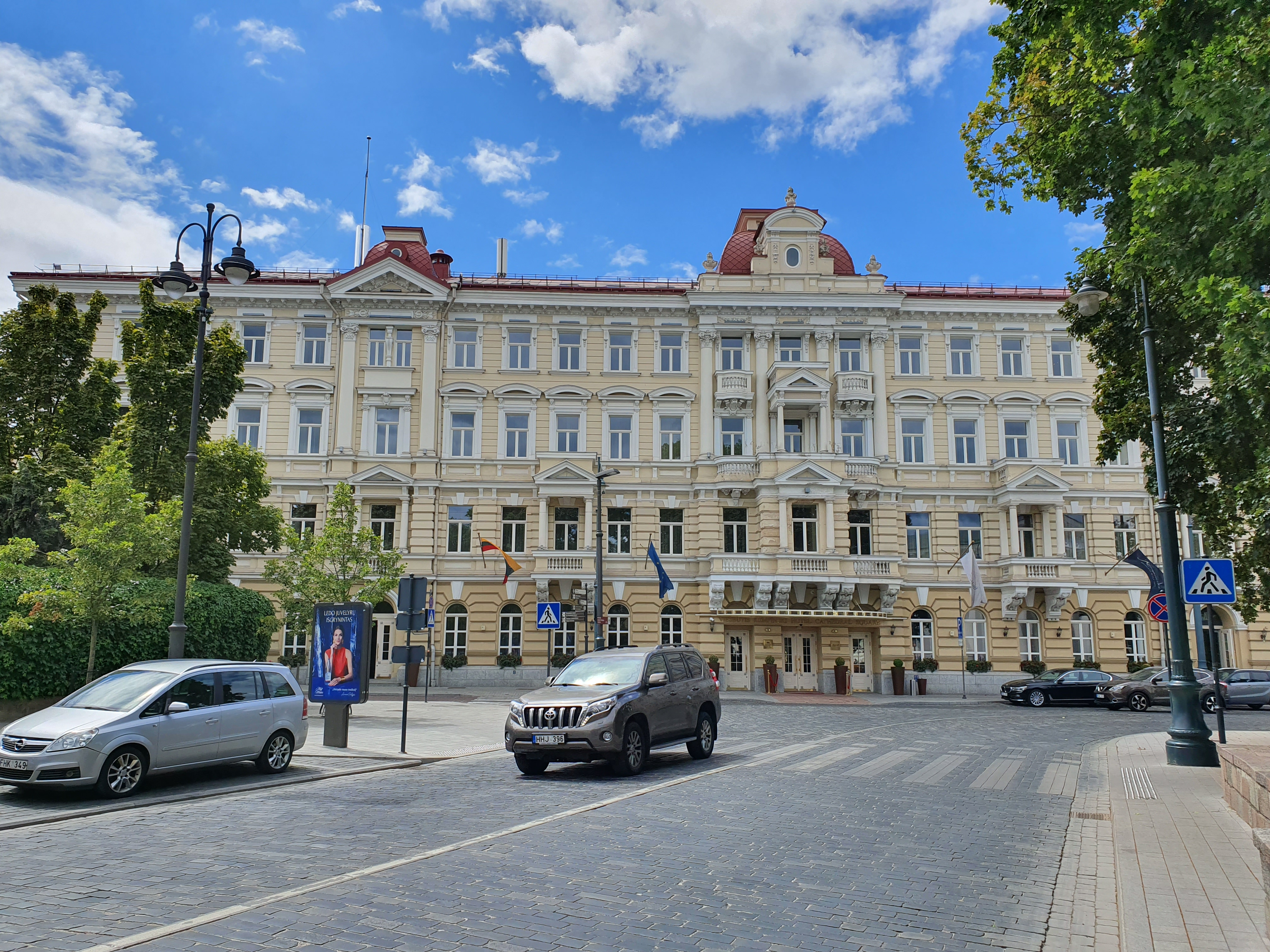 Grand Hotel Kempinski Vilnius in Vilnius, Lithuania.